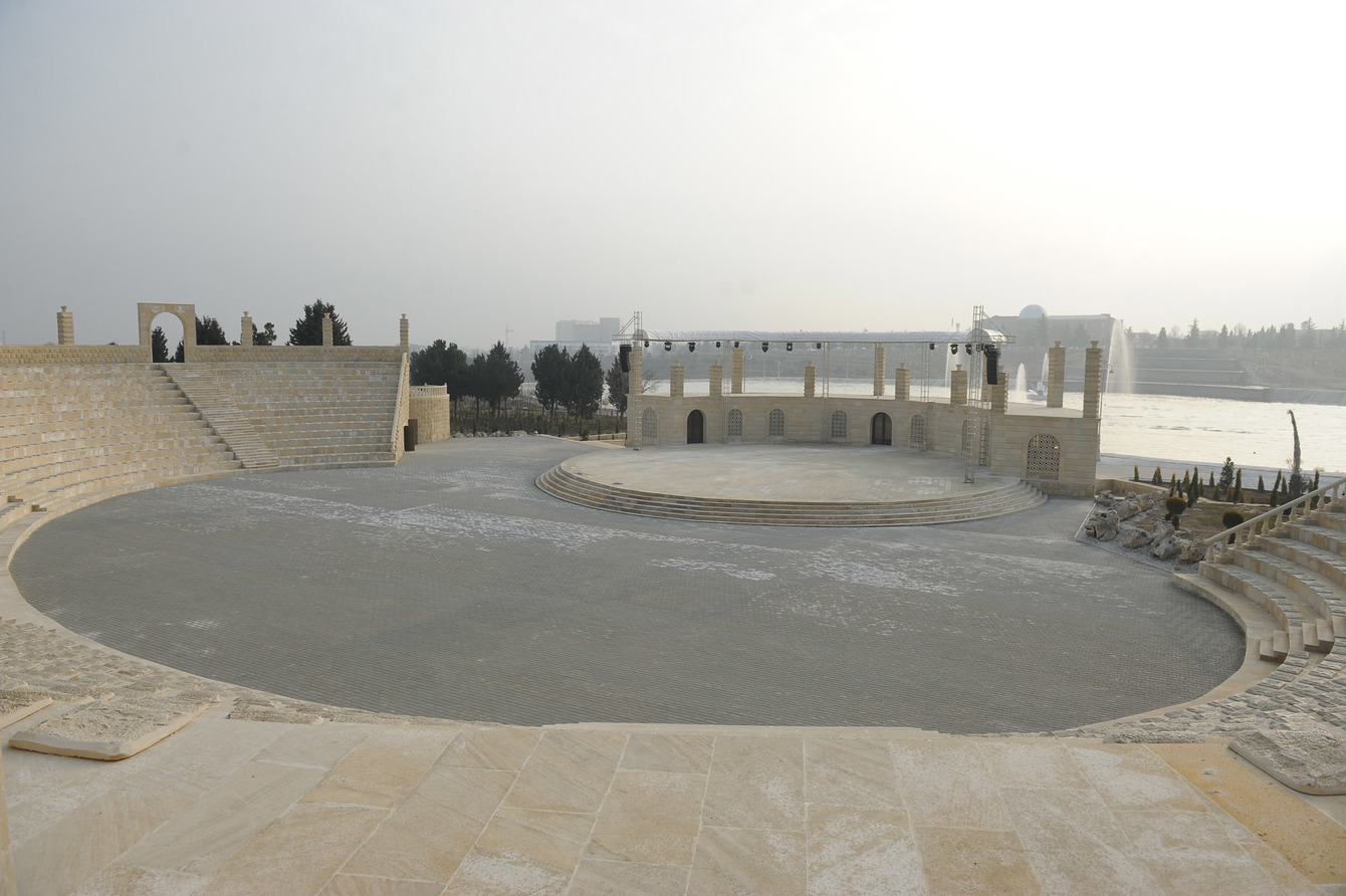 Ilham Aliyev attended the opening of the Heydar Aliyev Park Complex and the Heydar Aliyev Center in Ganja